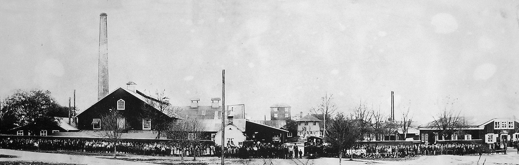 The staff at Kosta glassworks in Sweden in the 1890's. The steam locomotive is No 1 KOSTA. The old smelting-house. which burnt down in 1901, is on the left.